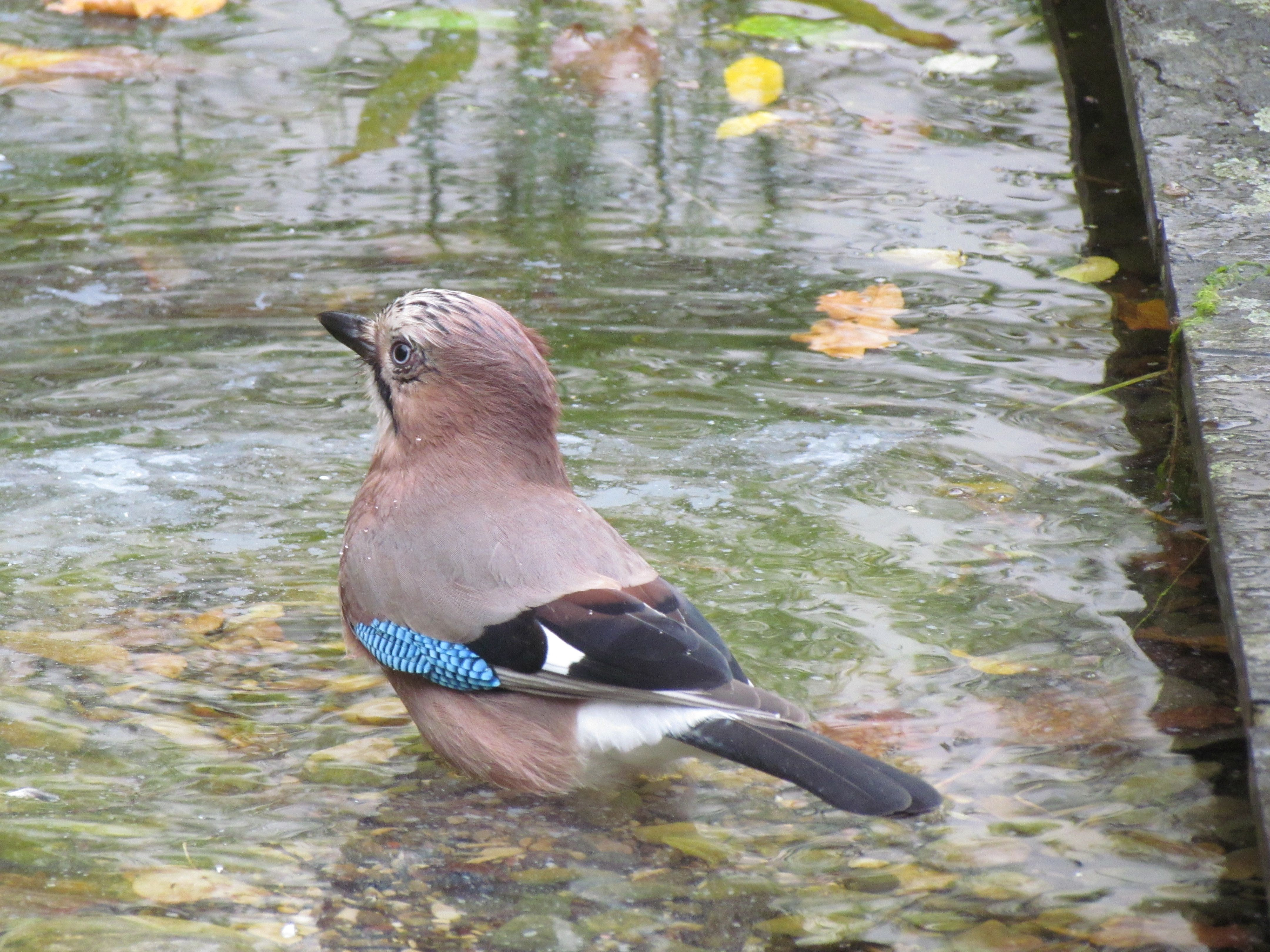 An Eurasian Jay (Garrulus glandiarius) while bathing; Hannover, Germany